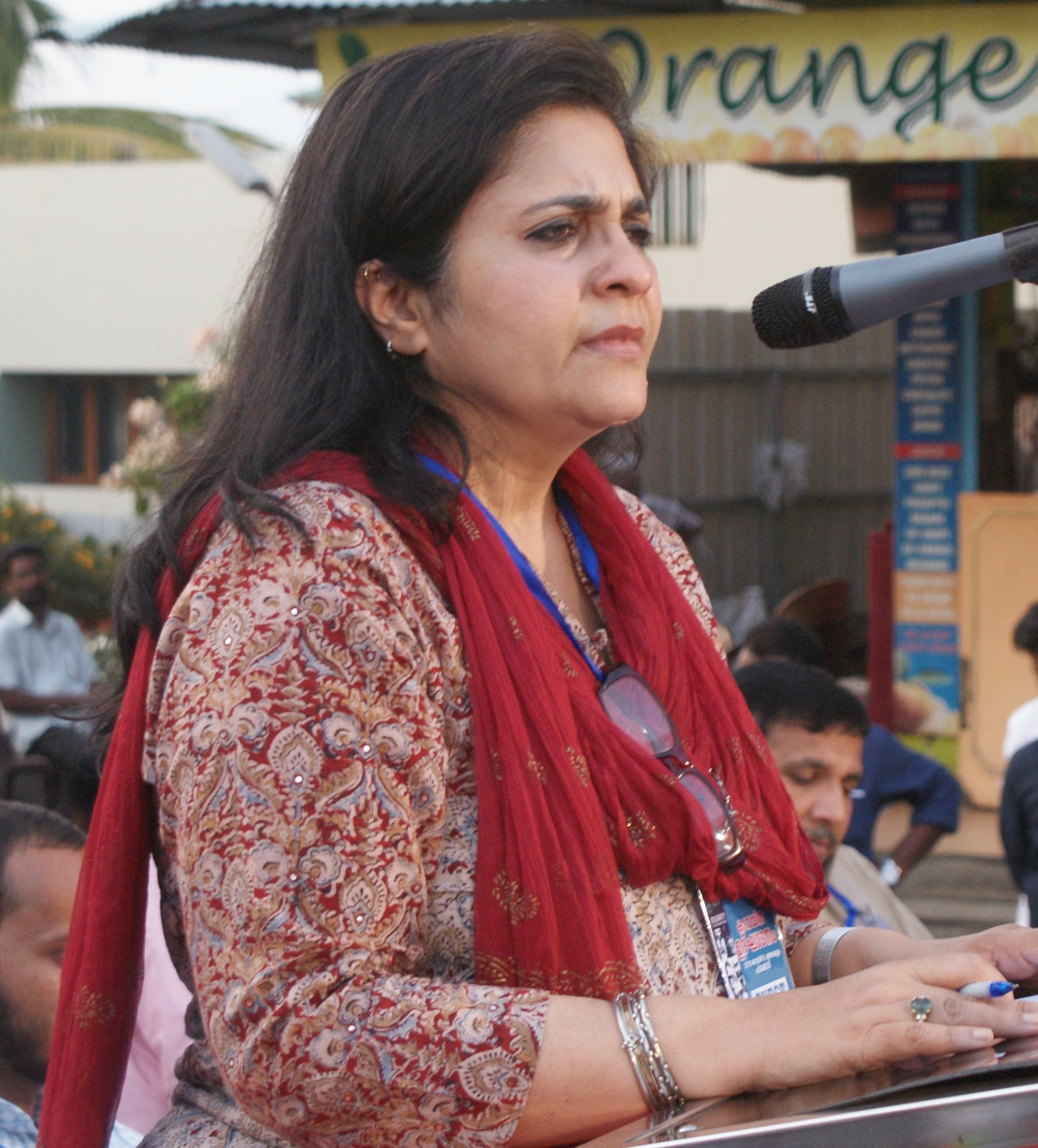 Teesta Setalvad in solidarity function